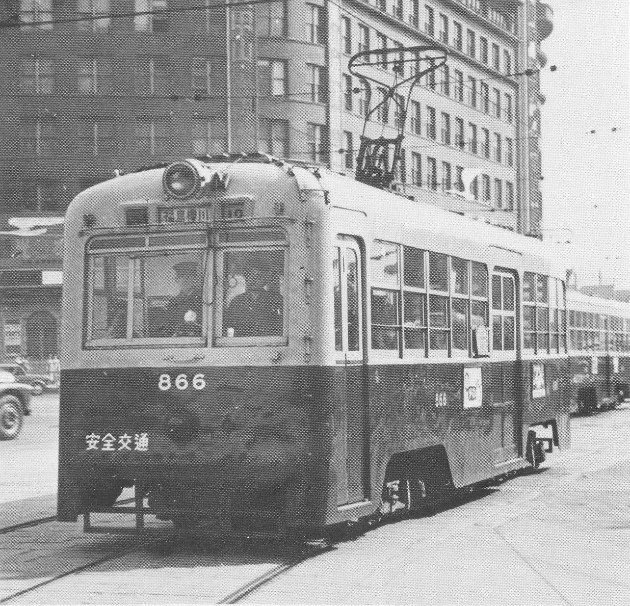 Osaka City Tram 866.